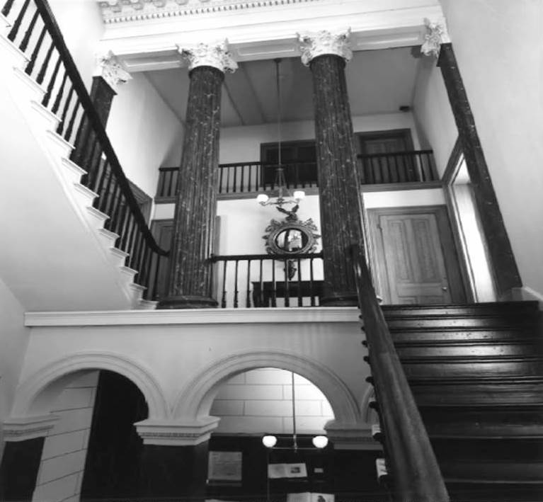 "Publisher:National Park Service Published: 02/01/1972 Access:Public access Restrictions:Public domain Format/Size:Physical document with text, photos and map" from have to search for "Athenaeum of Philadelphia" Two pdf files (listed in article Athenaeum of Philadelphia) give text and photos. Forms (pdfs) were prepared by an NPS employee and published without copyright mark in 1976 (Photos were credited to "Athenaeum of Philadelphia") Thus, this is in the public domain 2 ways a) NPS declaration, B) Published without copyright notice before 1978